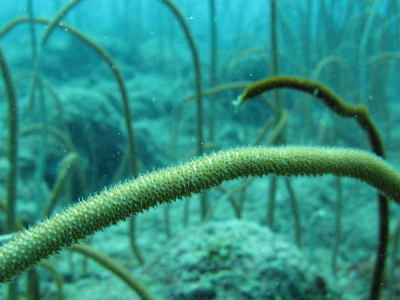 Sea Whips (Junceella fragilis) at Lizard Island. Colony diameter is about 8 mm.